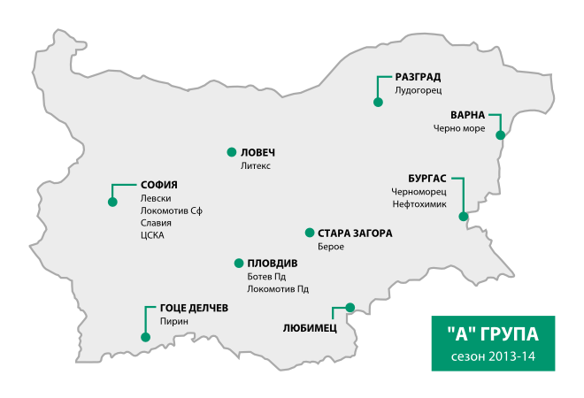 Map of the cities with teams in the 2013/14 Bulgarian A Football Group.